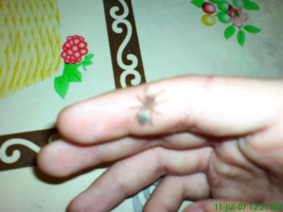 spider vitalius sorocabae ling